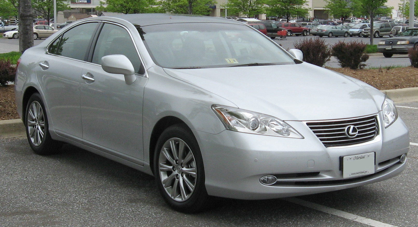 2007 Lexus ES350 photographed in USA; modified version of original photo (cropped, levels)